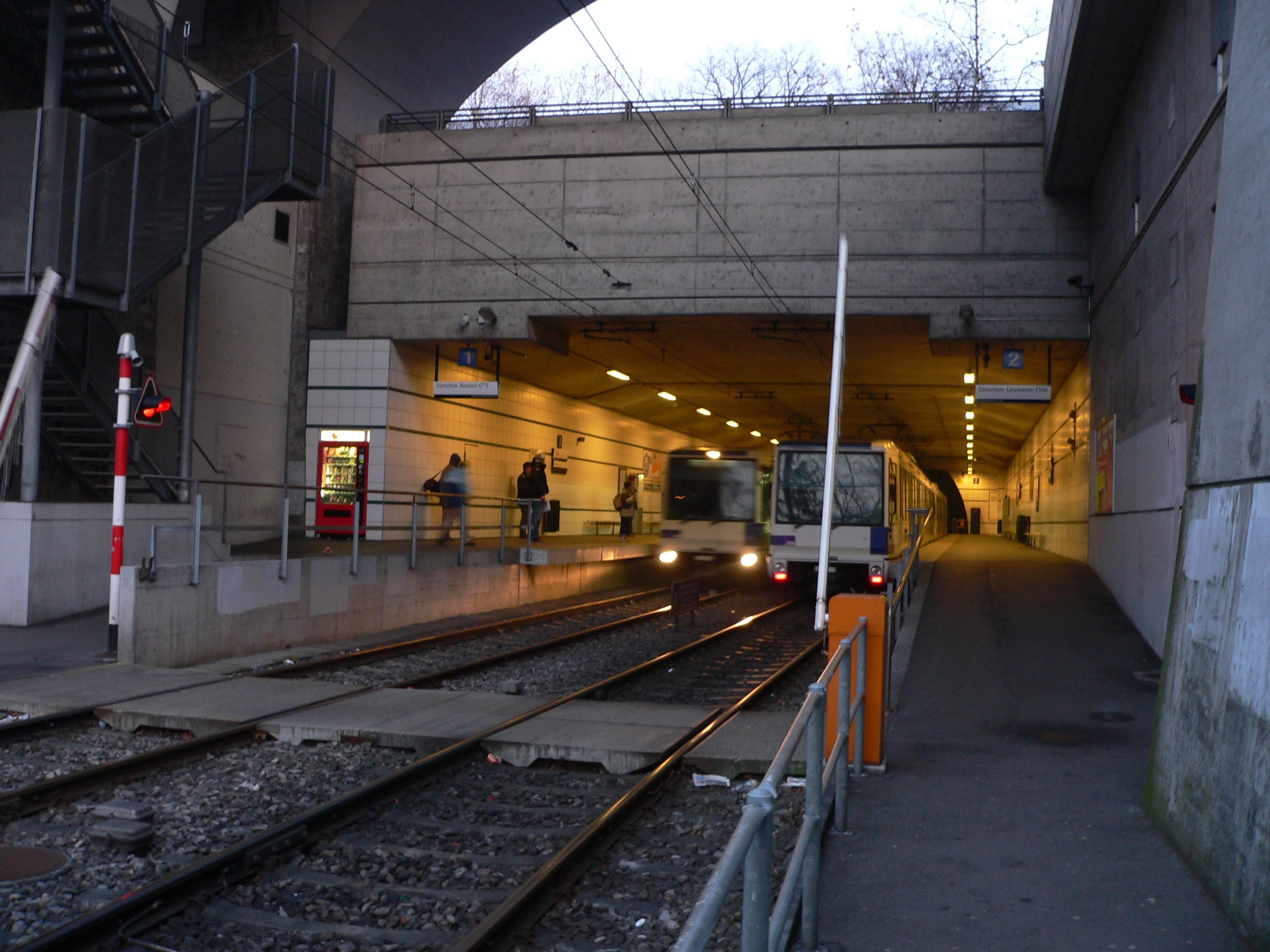 Vigie station of Lausanne M1